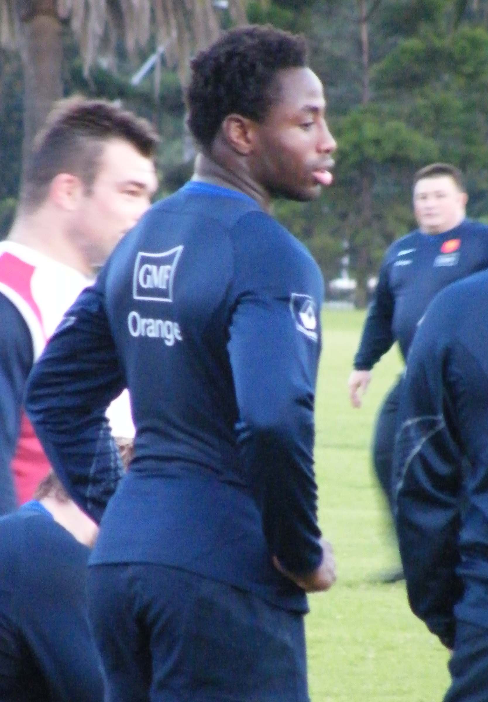 Fulgence Ouedraogo - French Rugby Union Training - Moore Park, Sydney 23 June 2009.